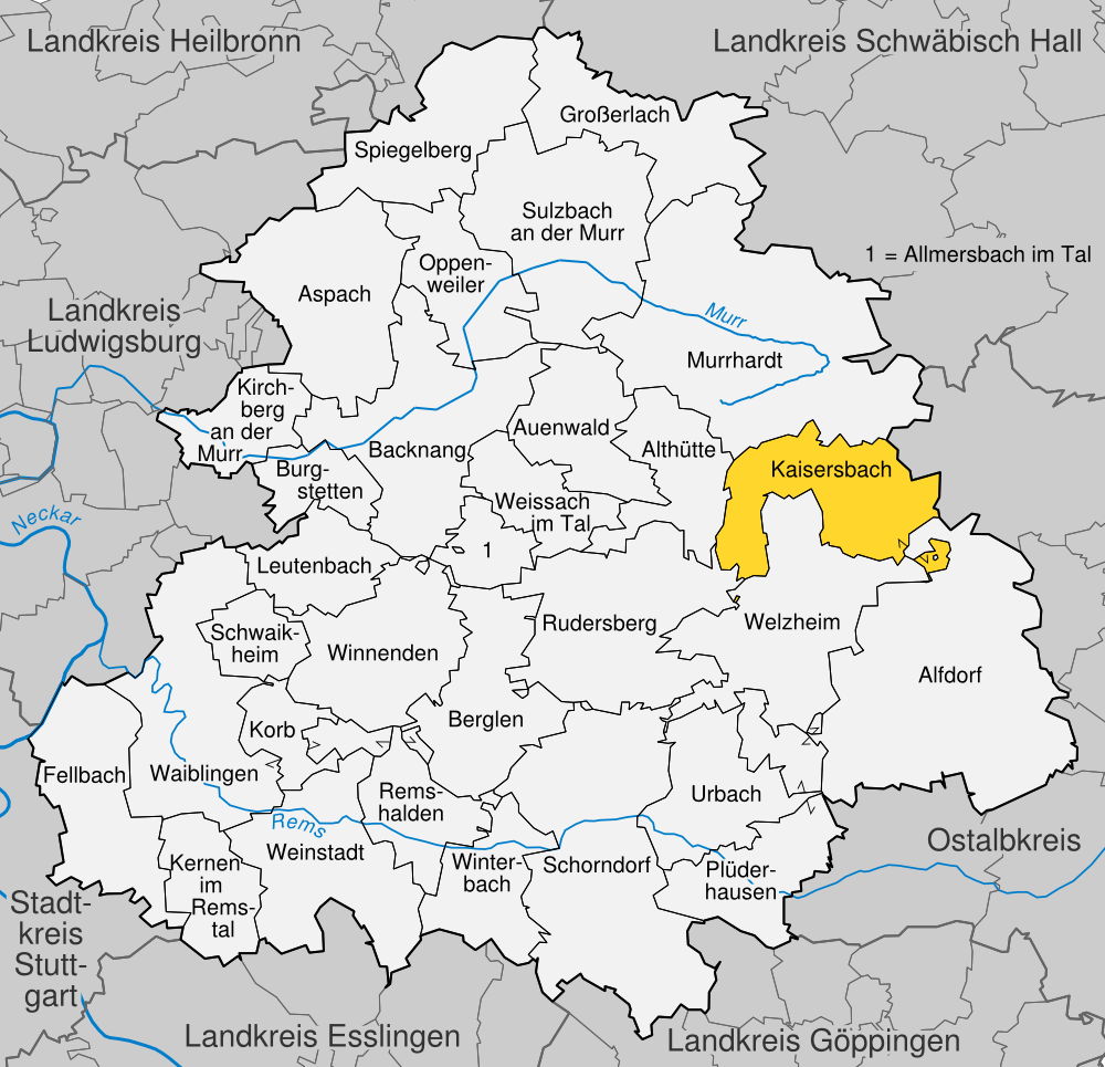 position of Kaisersbach within the Rems-Murr-Kreis, Baden-Württemberg, Germany